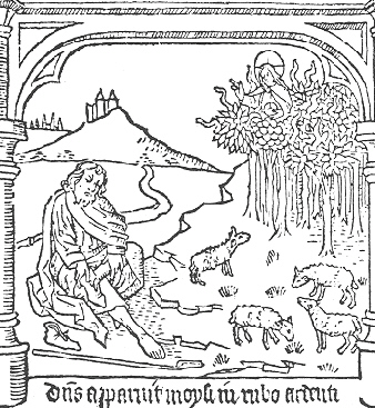 Dominus apparauit moysi in rubo ardenti, woodcut from an edition of the Speculum Humanae Salvationis